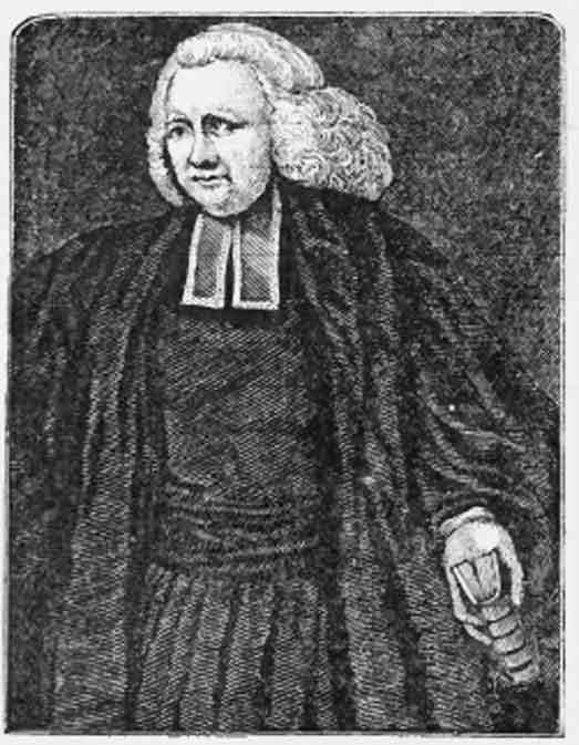 The life of the Rev. George Whitefield